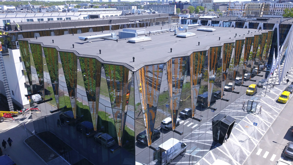 Photo of Eesti Gaas new headquarters on Sadama 7, Tallinn.